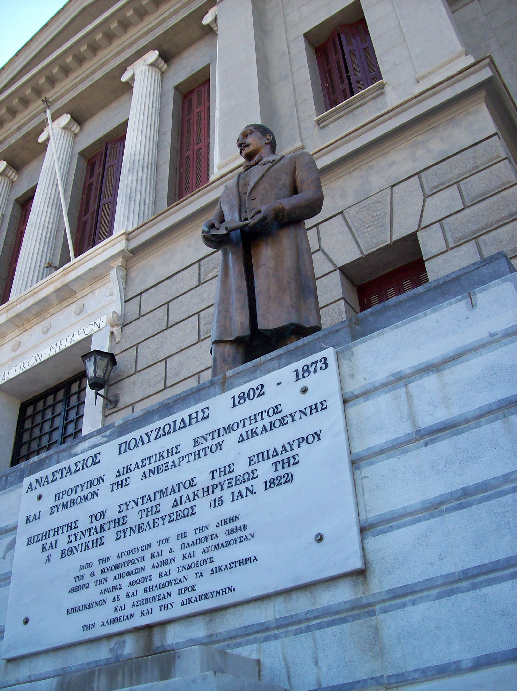 Statue of Anastasios Polyzoidis and front of Court House in Tripoli, Greece.